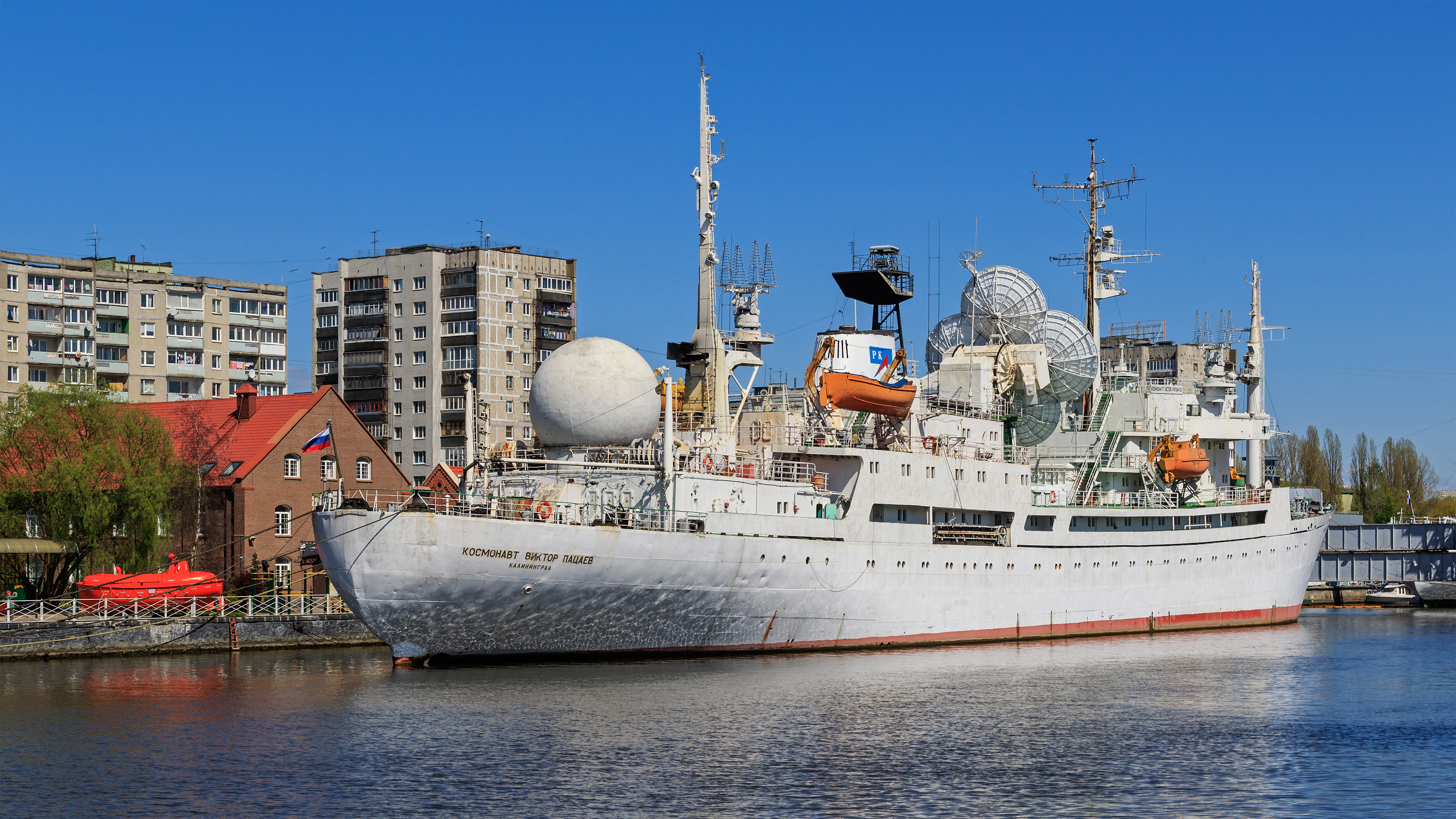 «Kosmonavt Viktor Patsaev» research ship at the World Ocean Museum in Kaliningrad formerly Königsberg, Kaliningrad Oblast (Russia).